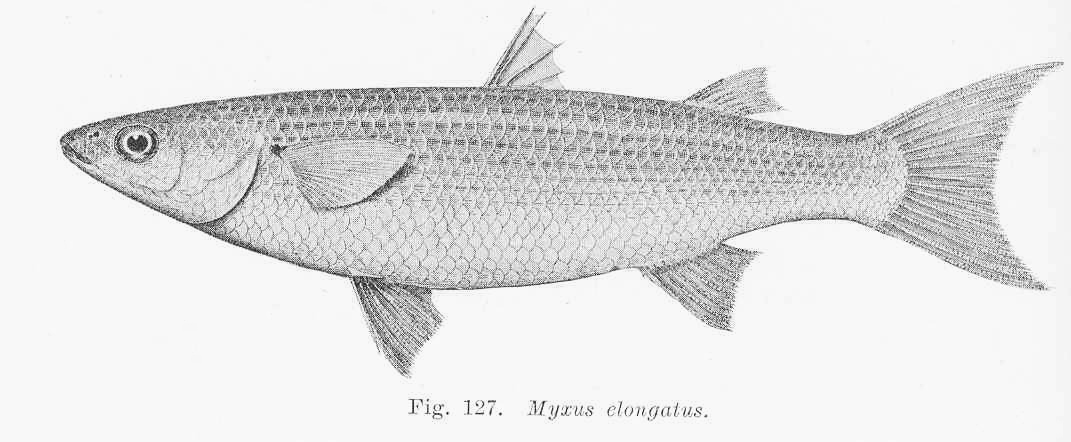 Myxus elongatus Subject: Gray mullets, Myxus Tag: Fish